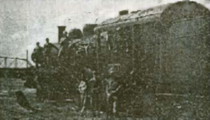 An Amei-class locomotive of the Chosen Government Railway around 1938.